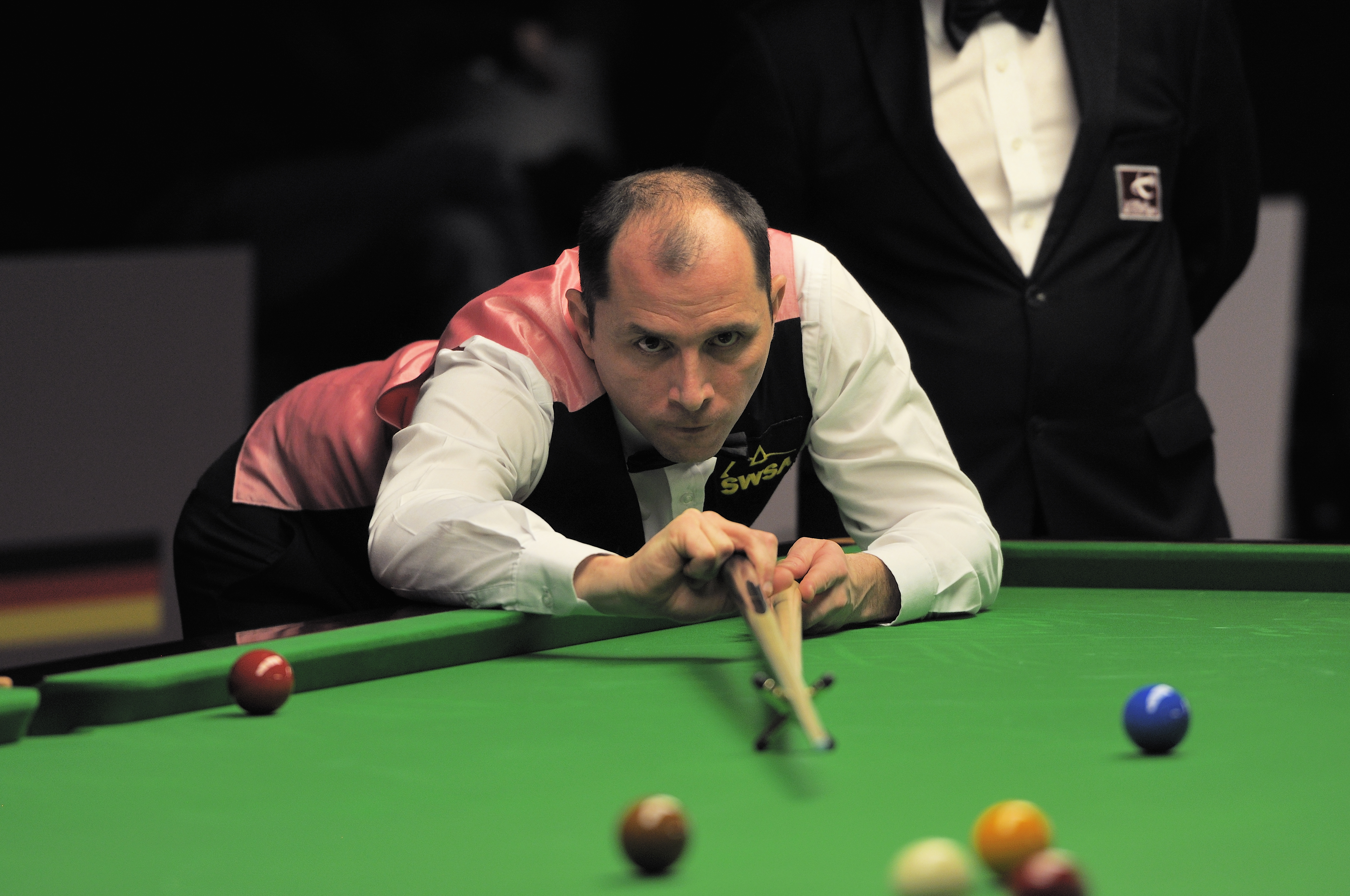 Picture taken in Berlin during the Snooker German Masters in 2014. Joe Perry.